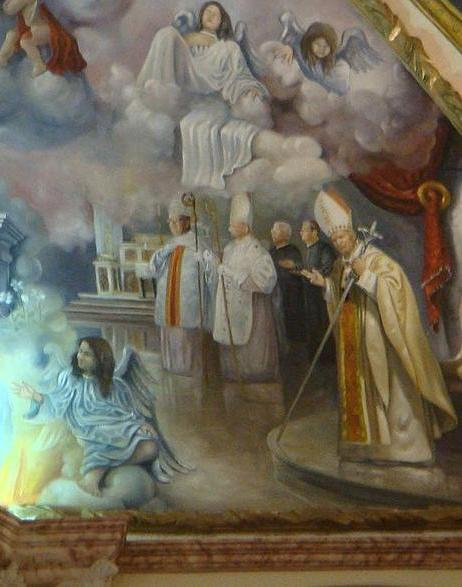 Monsignor Mayer and Rangel's Fresco in Main Church of Campos dos Goytacazes, RJ, Brazil. In the fresco are too the Pope John Paul II. Its the history of the catolich tradicionalism in Campos.